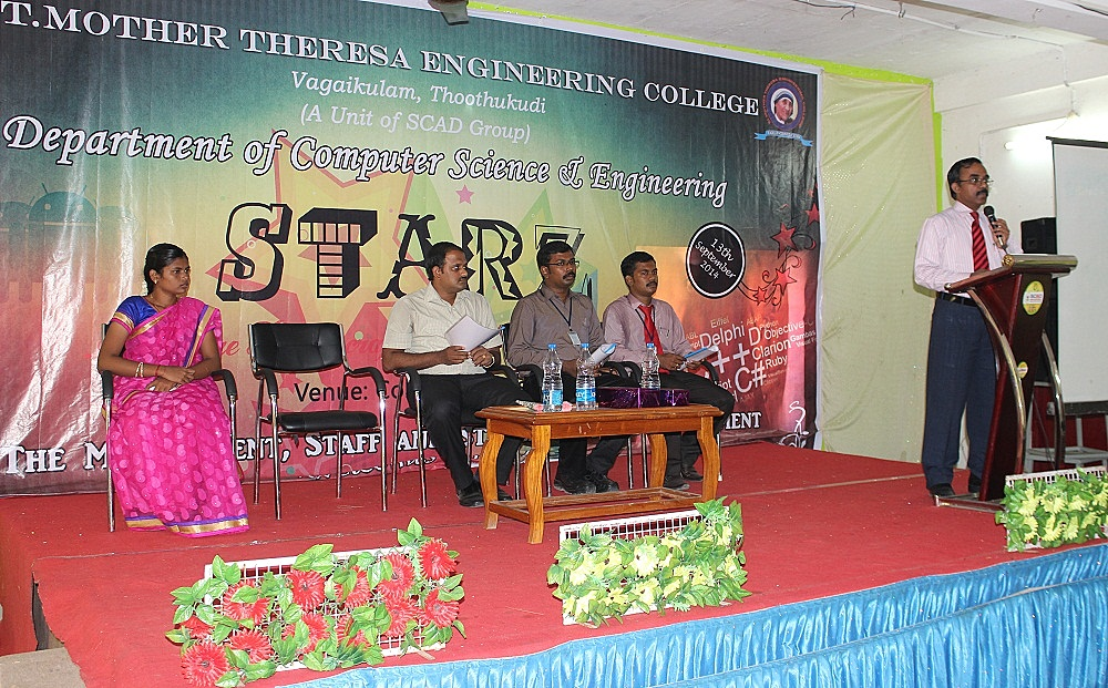 STARZ 2014- Department of CSE